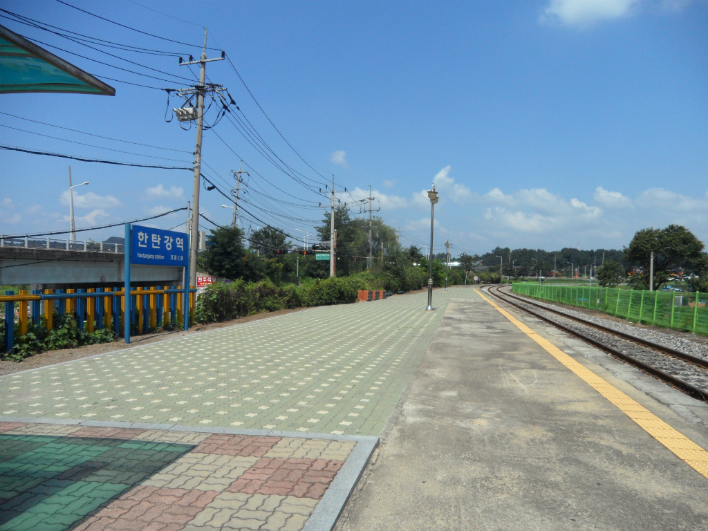 Hantangang Station (Gyeongwon Line)